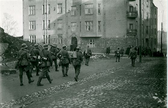 1918 Finnish Civil War: German Baltic Sea Division in Helsinki.